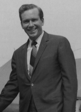 Governor of Missouri Warren Hearnes in 1969.